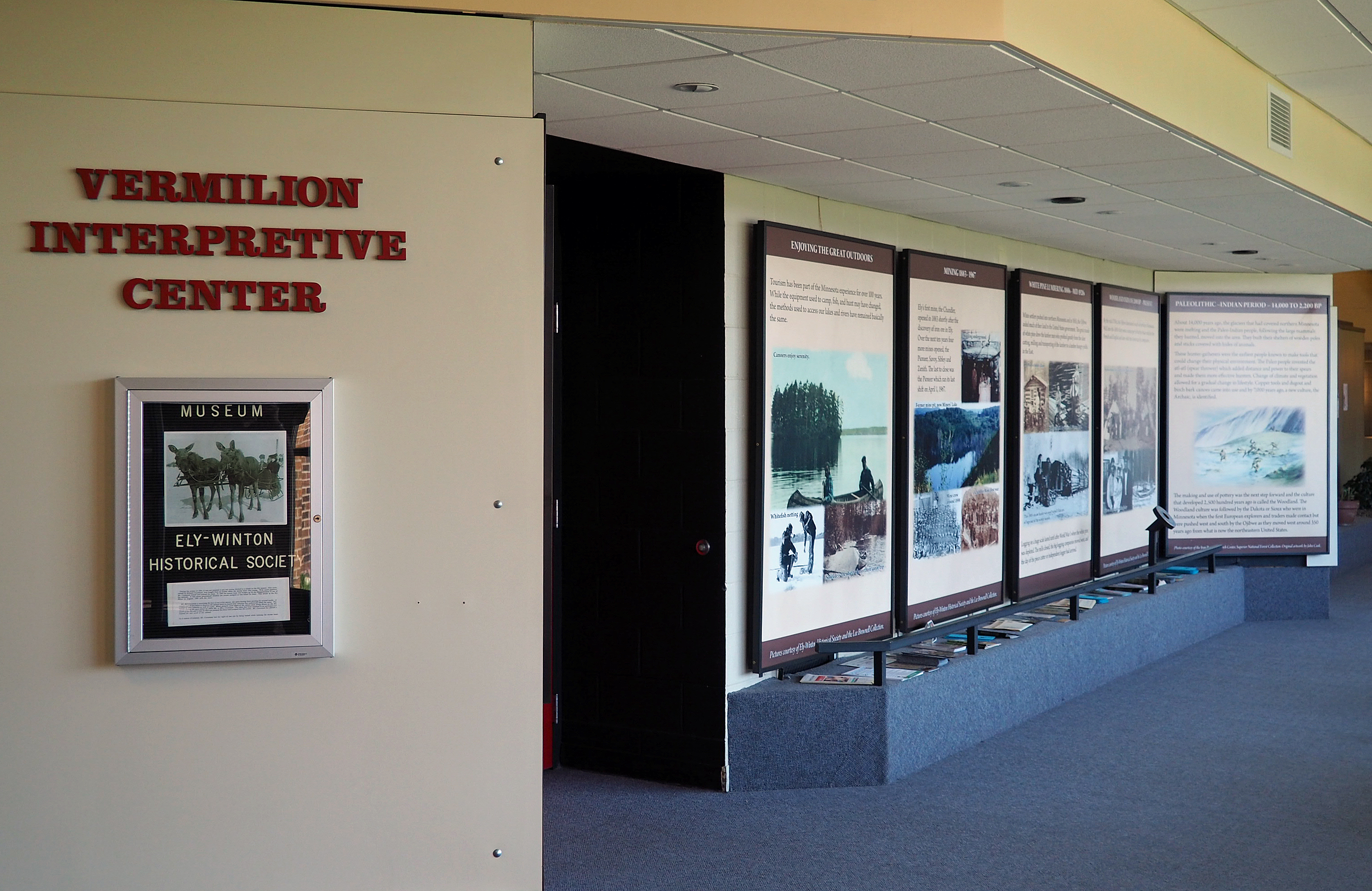 Ely-Winton History Museum, Vermilion Community College, 1900 E Camp St, Ely, Minnesota, USA.